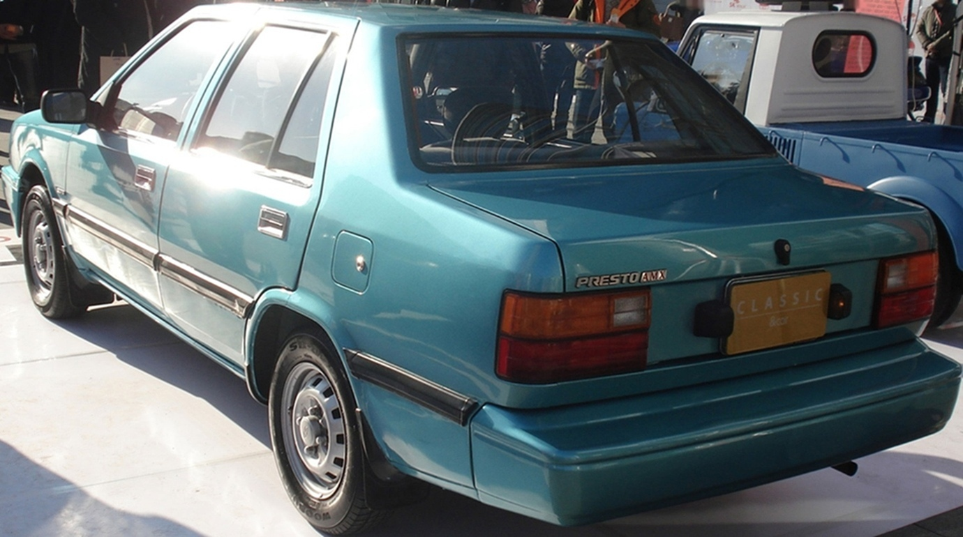 Hyundai Presto